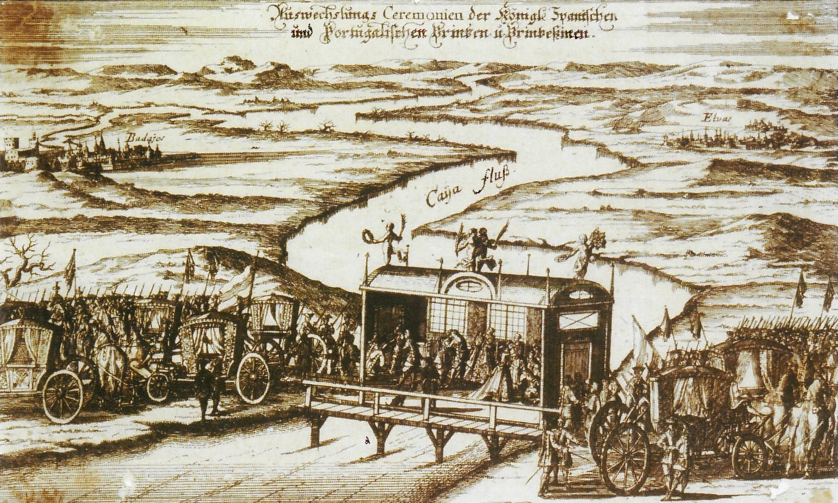 Engraving depicting the Exchange of the Princesses in 1729, the double marriage of Barbara of Portugal to the future Ferdinand VI of Spain and Mariana Victoria of Spain, to future king of Portugal, Joseph I.